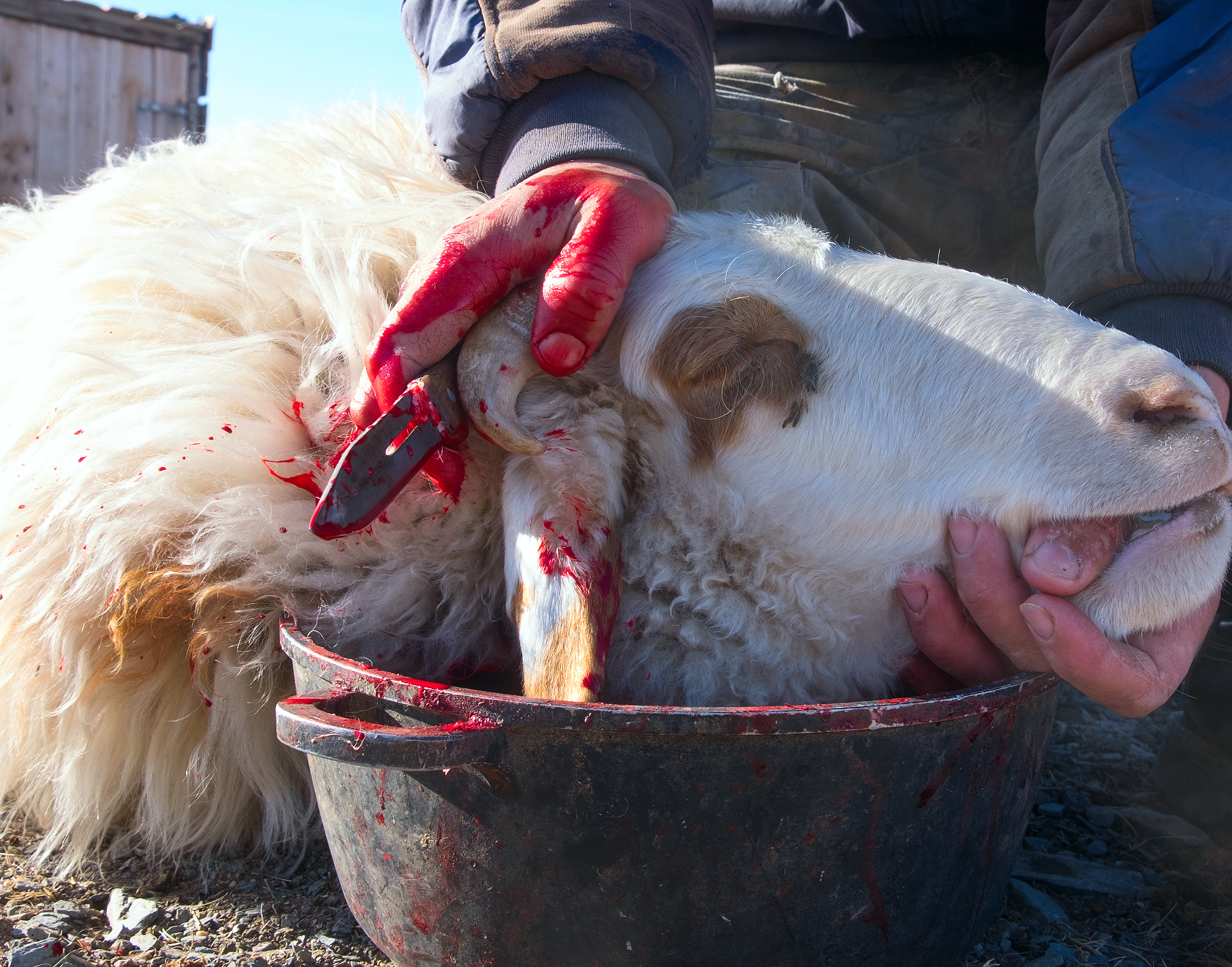 Killing the animal at the shepherd's camp